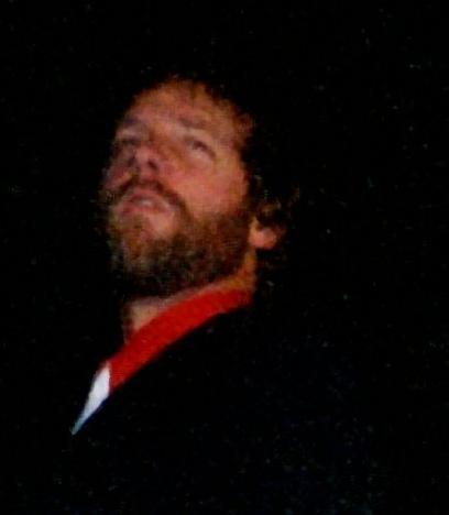 Tom Dumont performing with No Doubt in Worcester, Massachusetts, United States